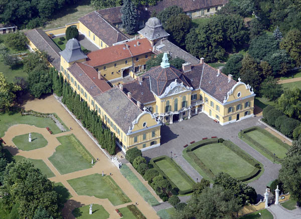 Nagytétény, Hungary, aerial pohotography